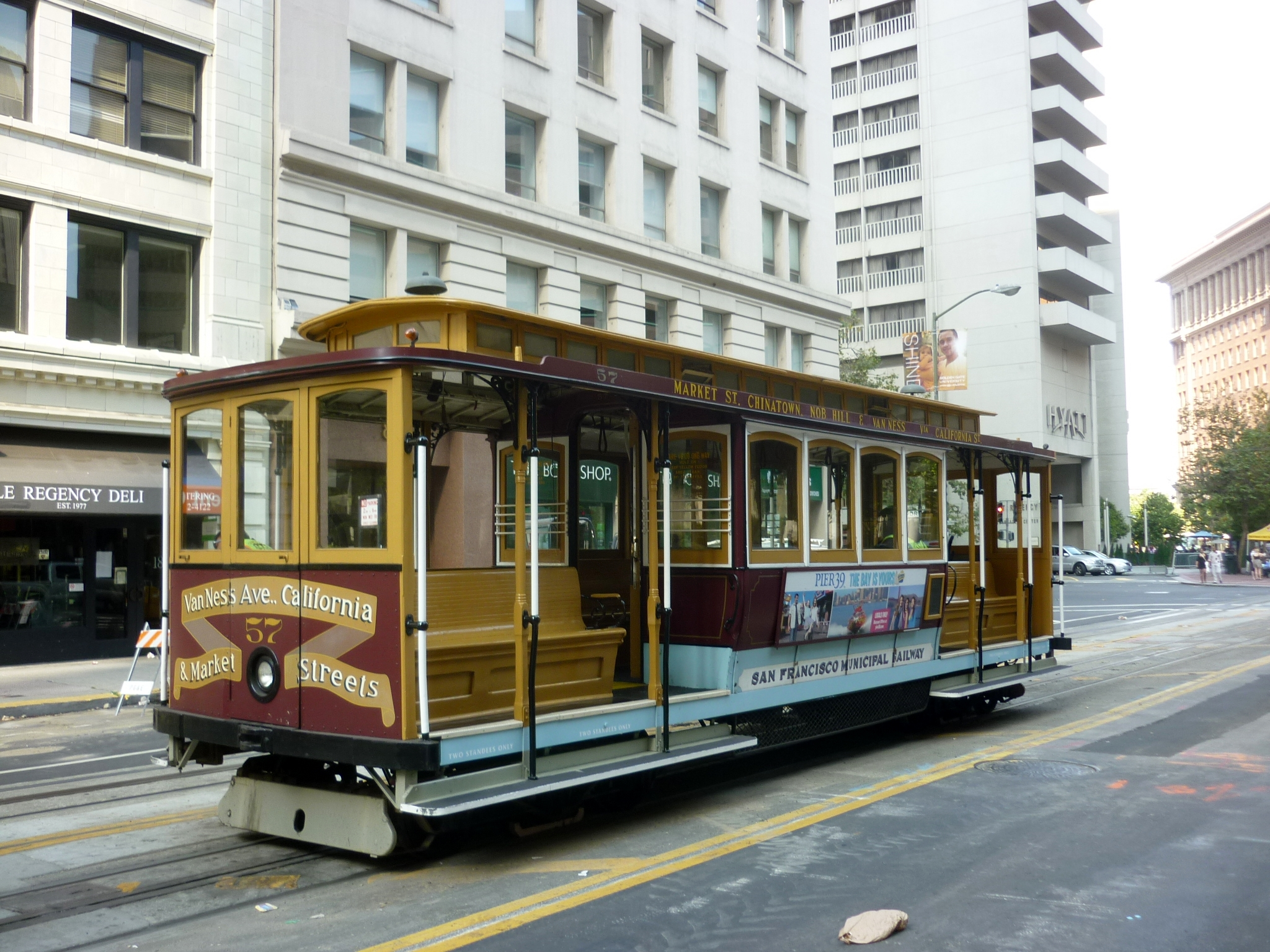 Cable Car, San Francisco